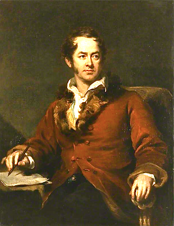 John Macculloch (1773–1835), Geologist, Surgeon and Civil Engineer by Benjamin Rawlinson Faulkner (1787–1849)